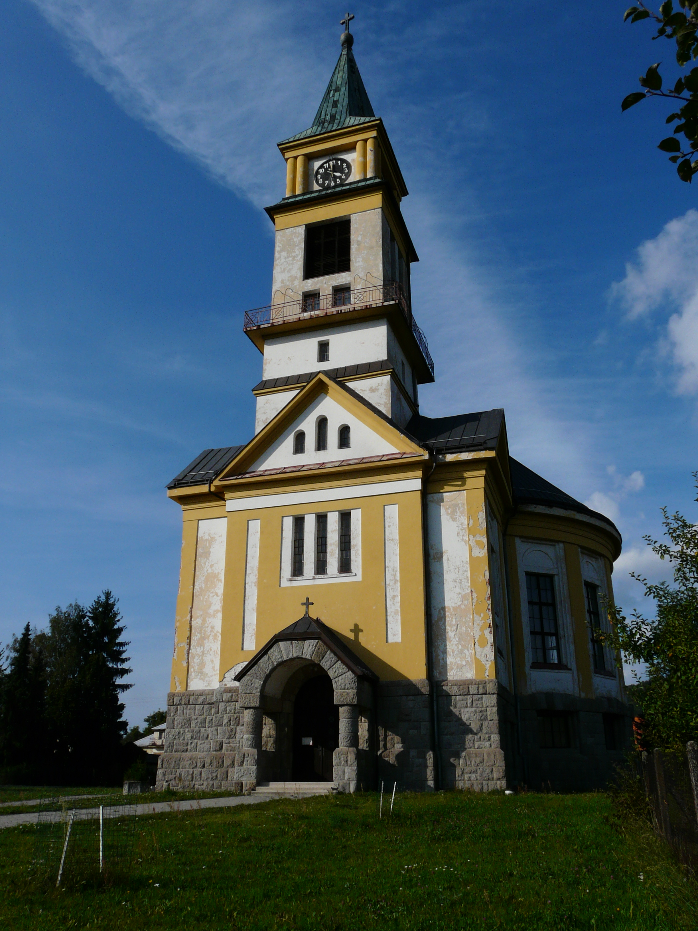 Evangelical Church of the Augsburg Confession in Pliešovce